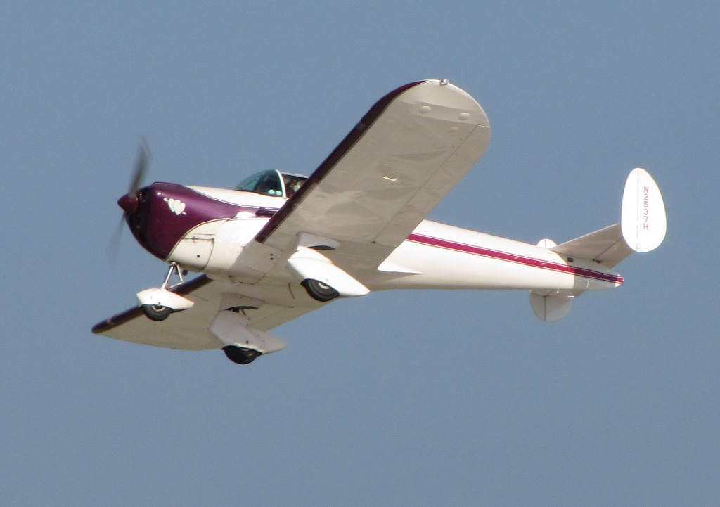 Ercoupe 415C Takeoff